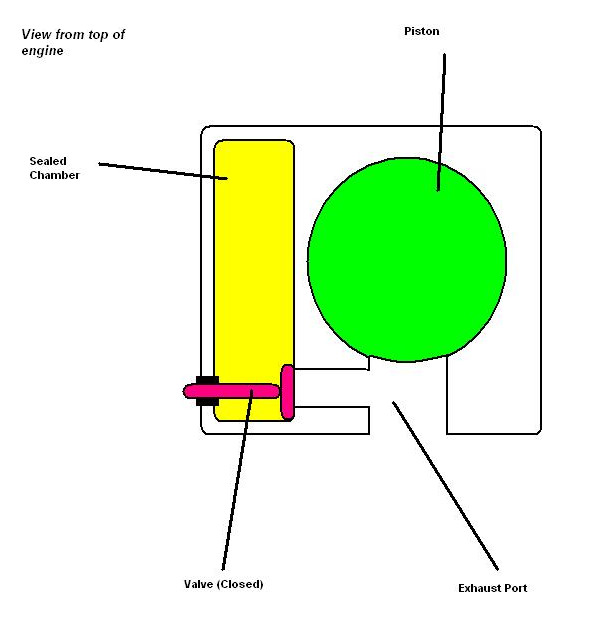 Simplified Variable Torque Amplification Chamber System cross section from a two-stroke power valve system.